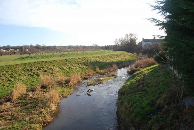 Channelisation of the River Alyn by Leadmill Bridge, Mold, to prevent floods.